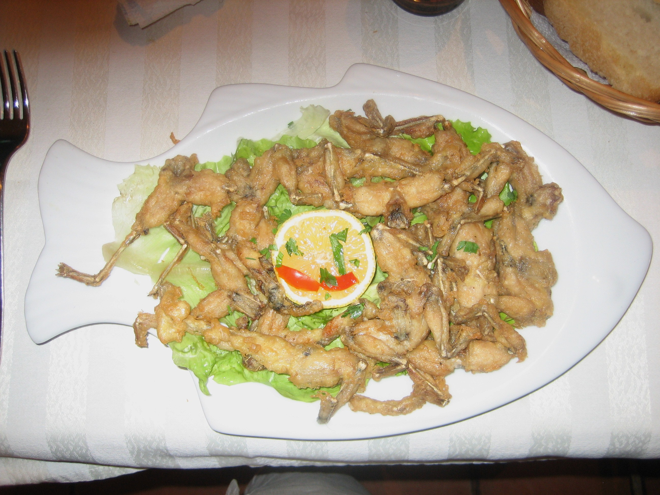 Frog's legs in restaurant Çoçja in Shkodër, Albania